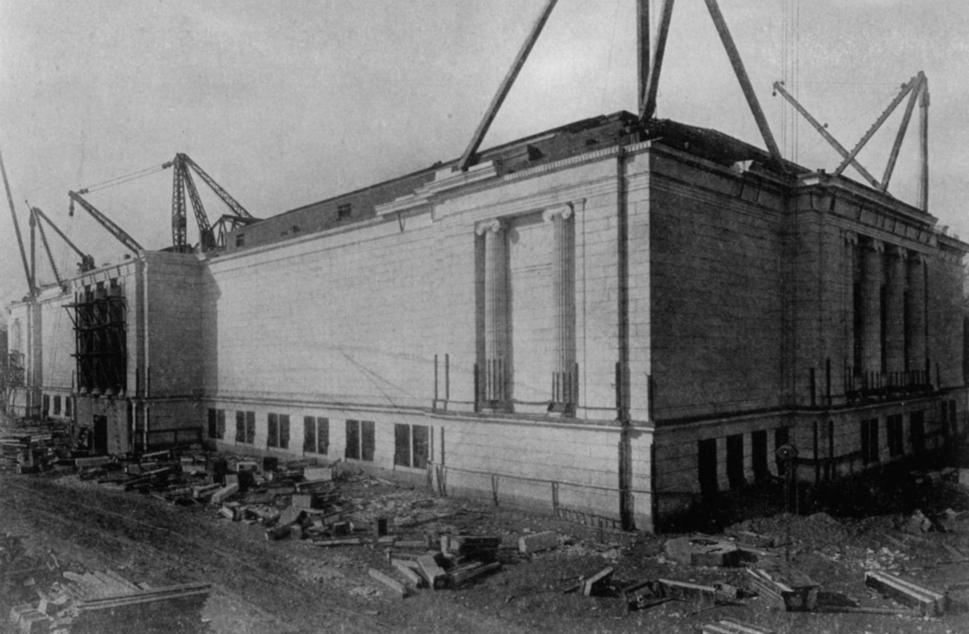 Southeast construction of the CMA